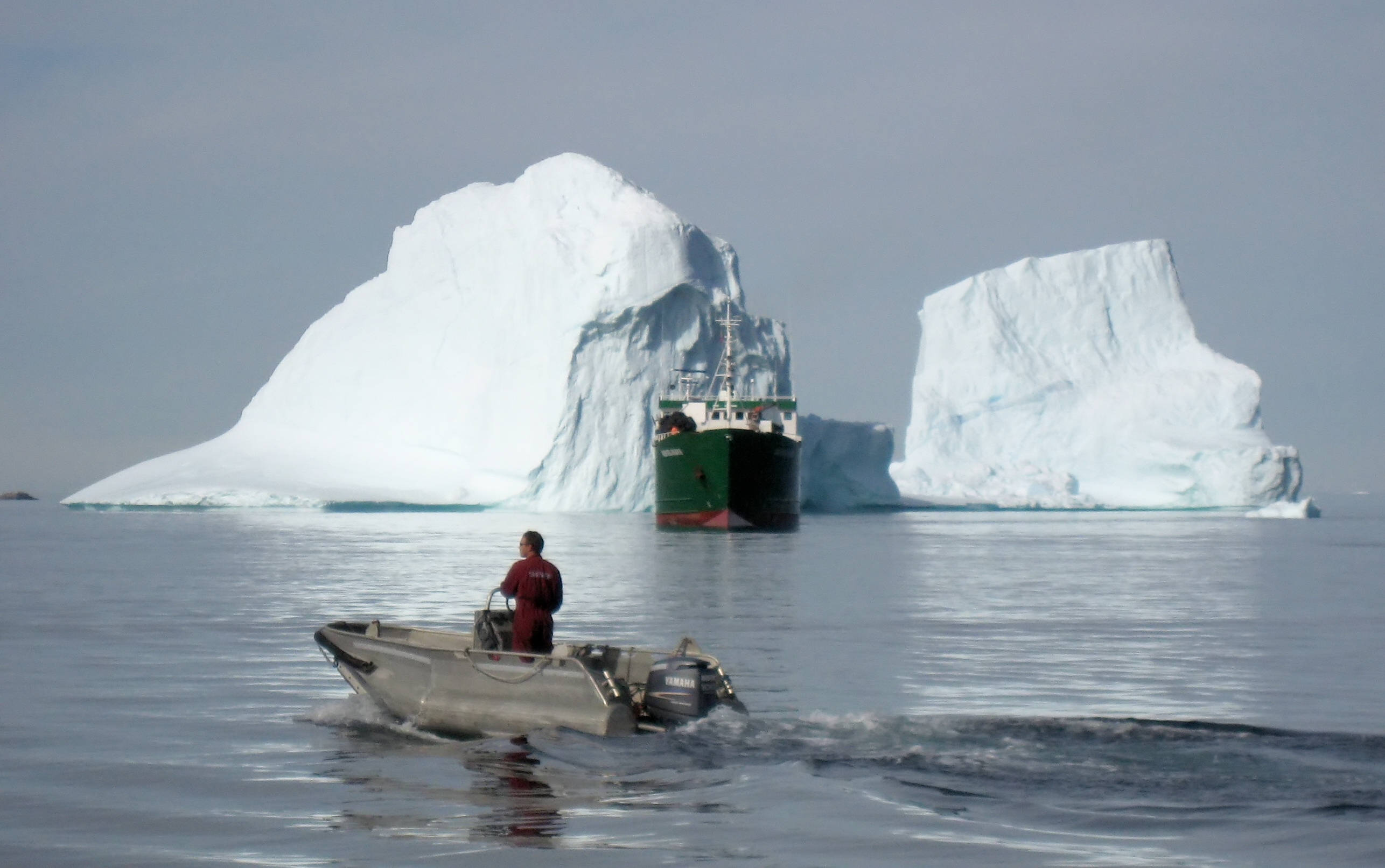 The supply boat Vestlandia approaches the port in Upernavik in front of an iceberg, while a local fisher or hunter leaves the port in a motor boat